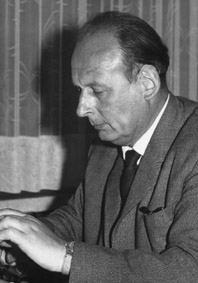 Low Saxon writer Walter Wiborg.